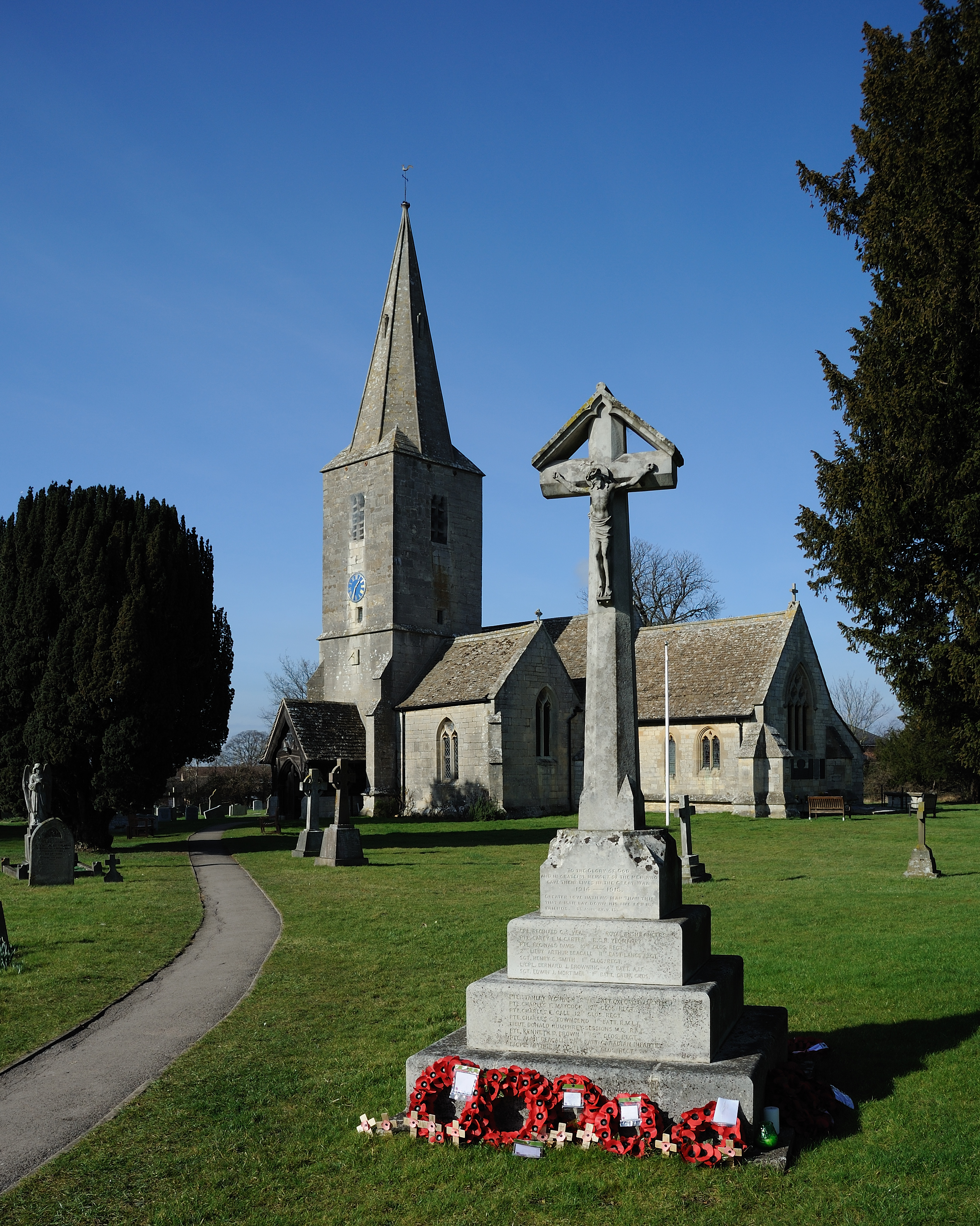 St James' parish church, School Lane, Quedgeley, Gloucestershire. In the foreground is the parish war memorial.